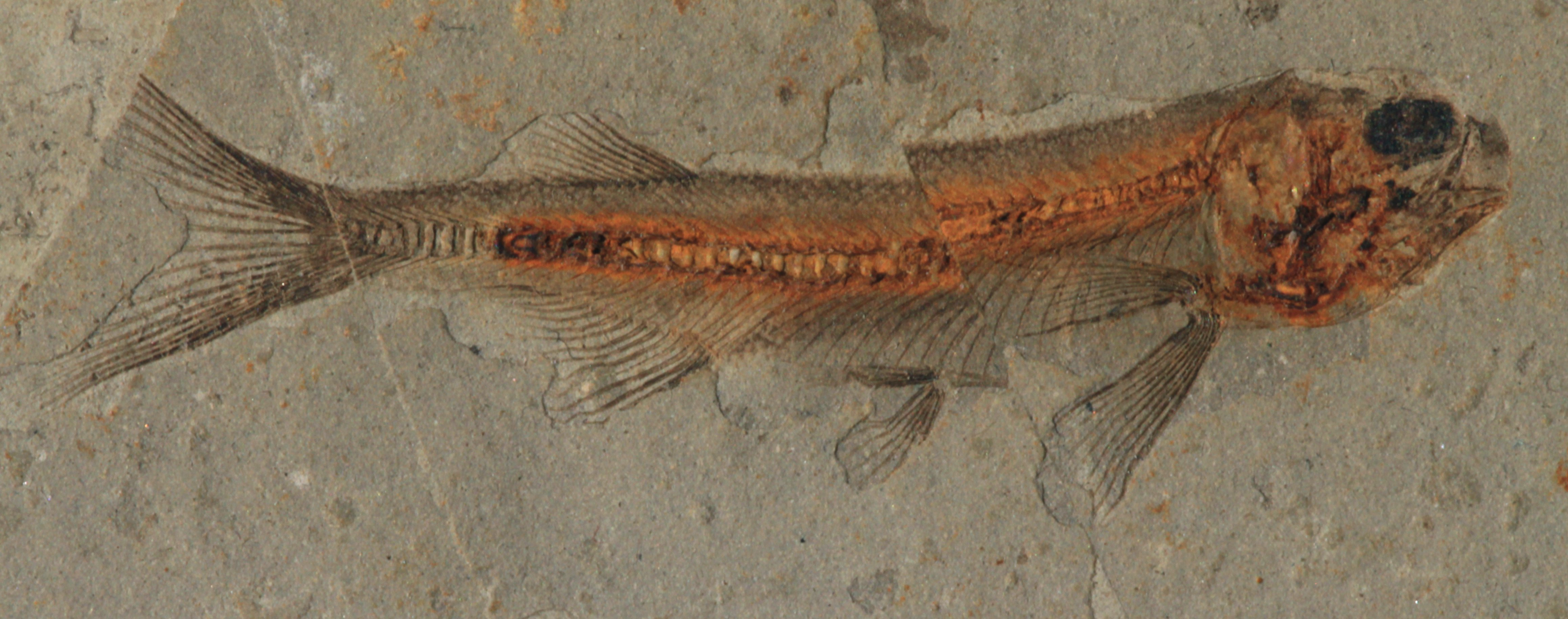 Extinct ray-finned fish Lycoptera davidi, Class Actinopterygii, Superorder Osteoglossomorpha, Family Lycopteridae, purchased in 2011 from Yixian, Liaoning, China, Lower Cretaceous (Aptian)